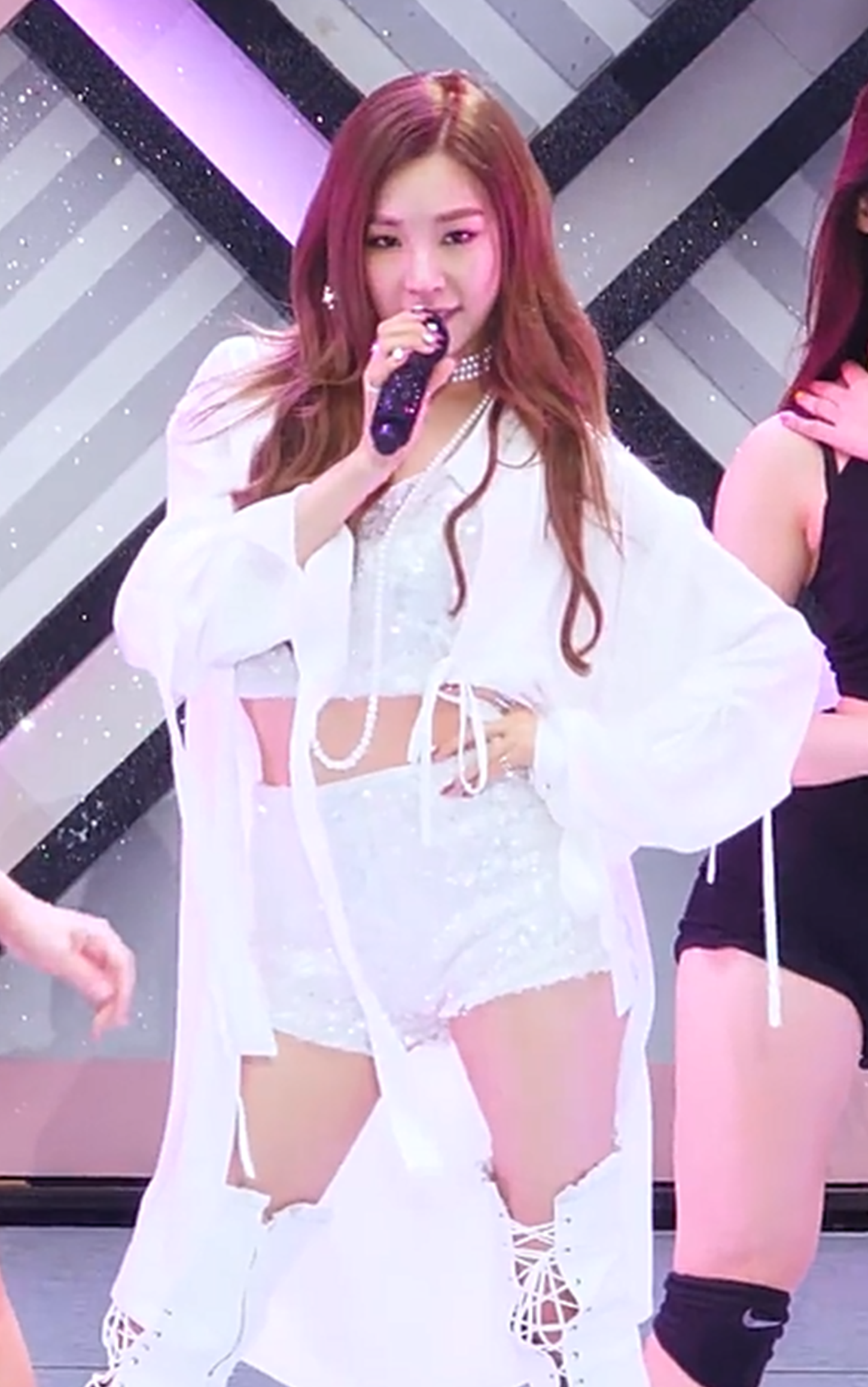 Tiffany Hwang performing "I Just Wanna Dance" at SMTown Live World Tour VI on July 8, 2017.